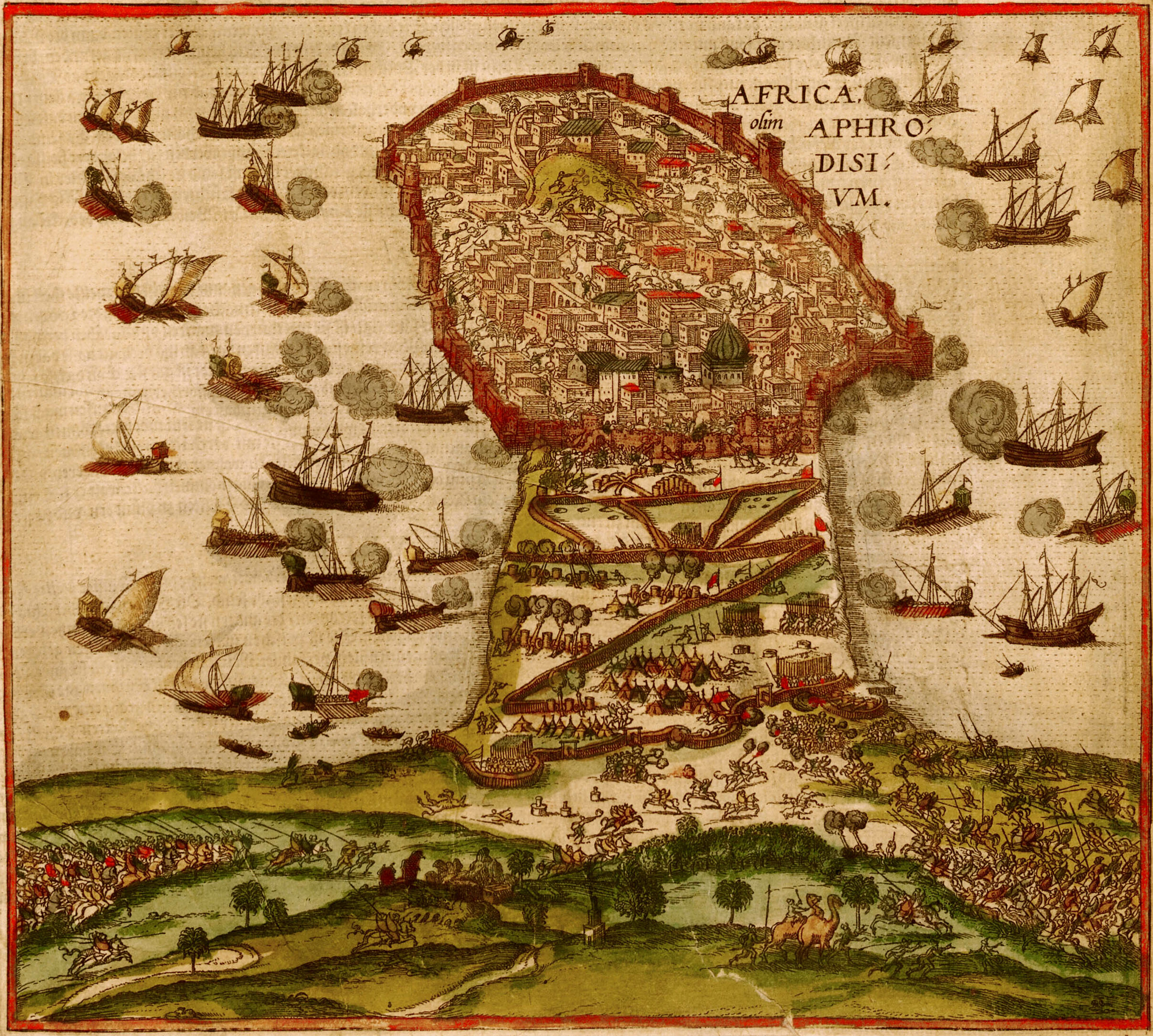 Mahdia in 1535